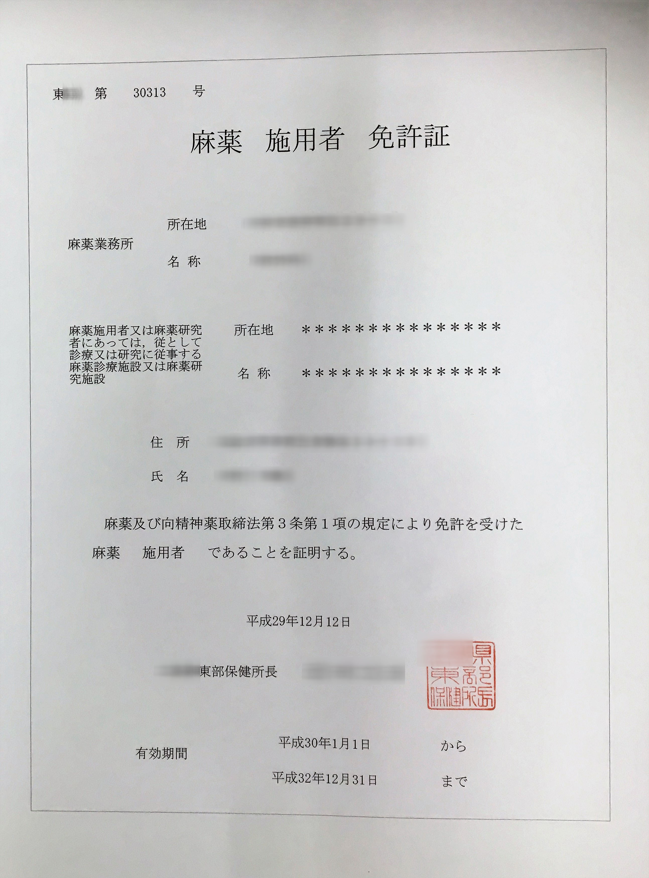 user license of the Narcotic (2017 JAPAN)